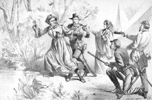 Capture of Jefferson Davis illustration New York Daily News May 16 1865 Other information Published 150 years ago